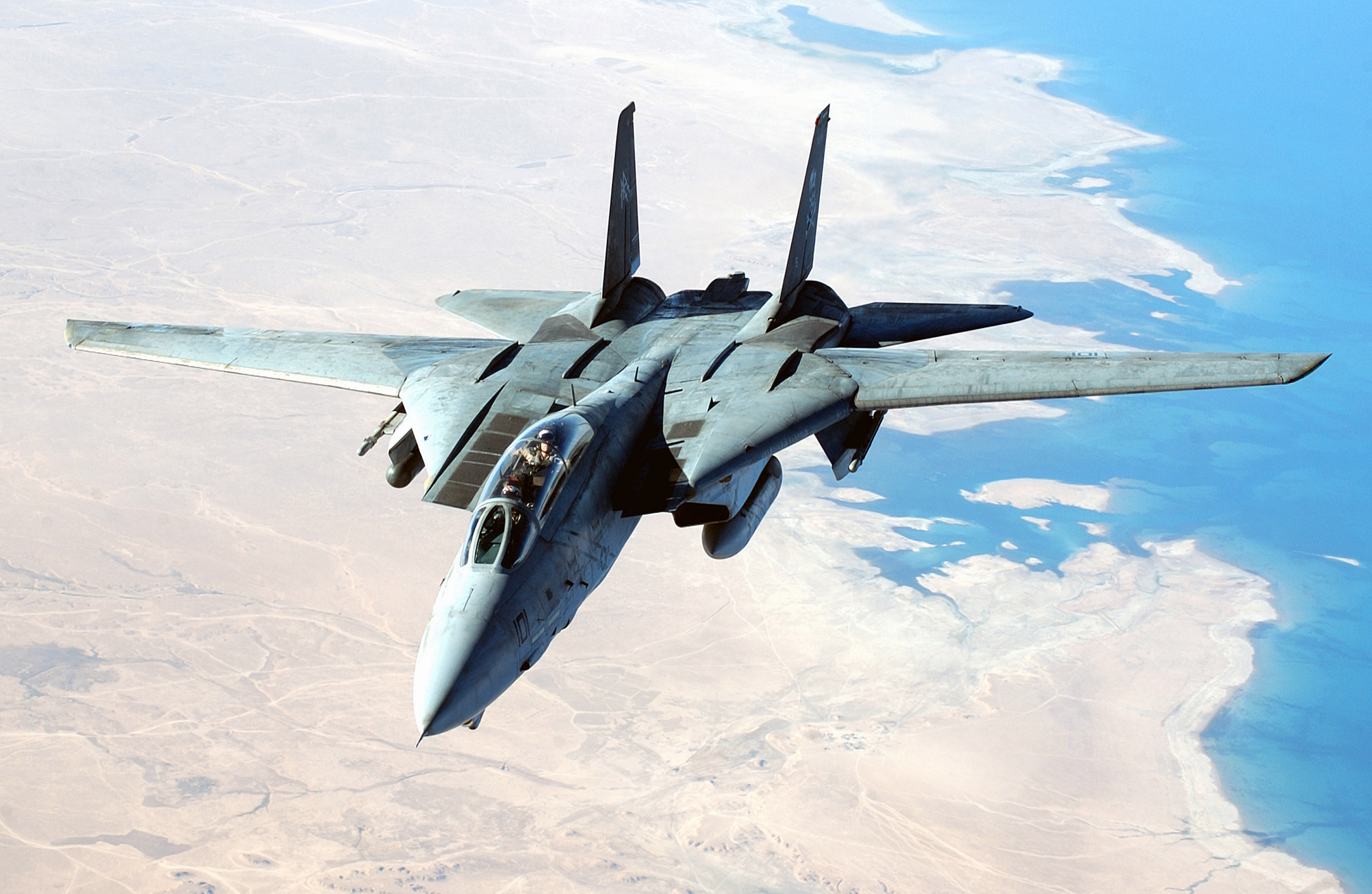 A US Navy (USN) F-14 Tomcat aircraft flies a combat mission in support of Operation Iraqi Freedom.